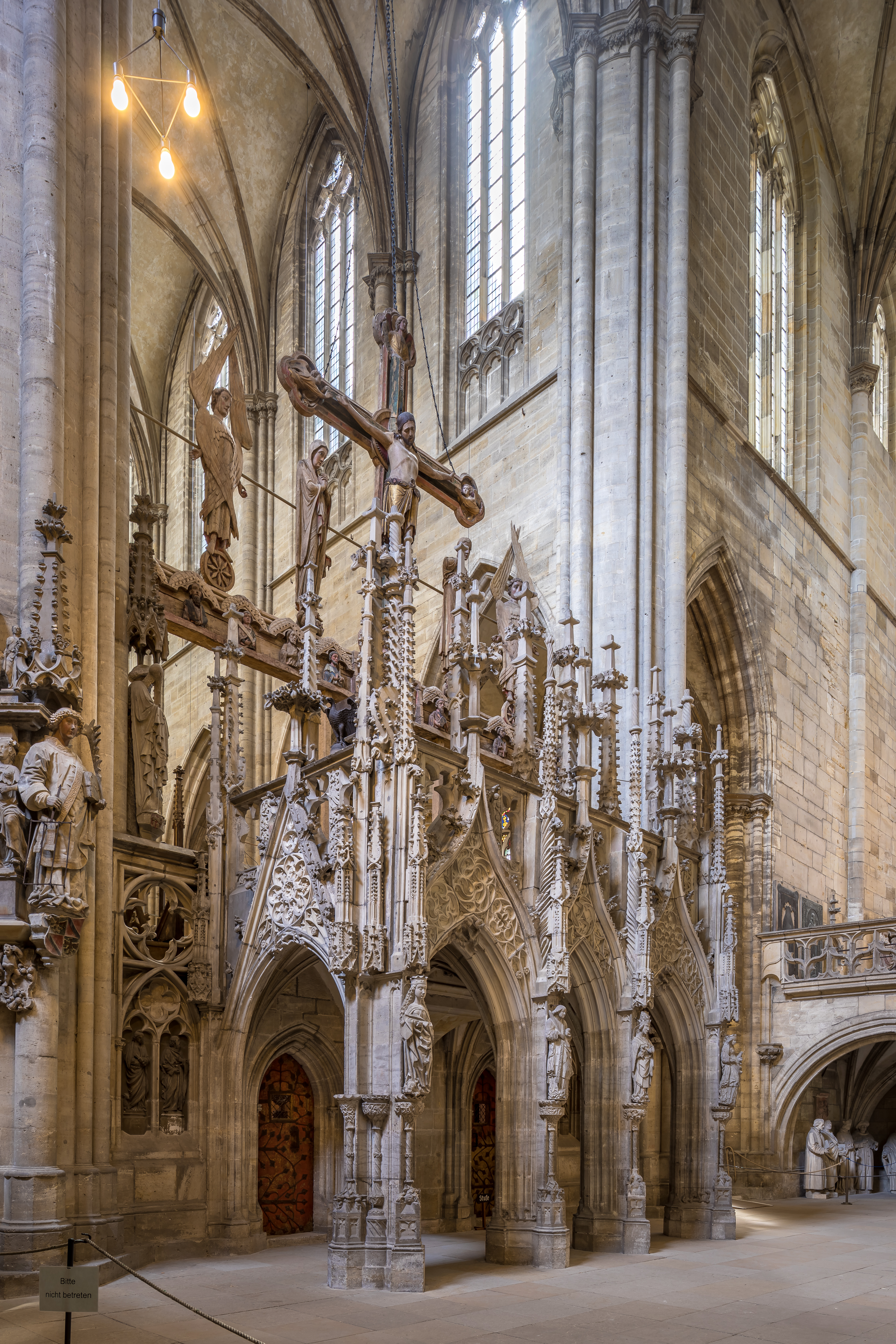 Cathedral of Halberstadt